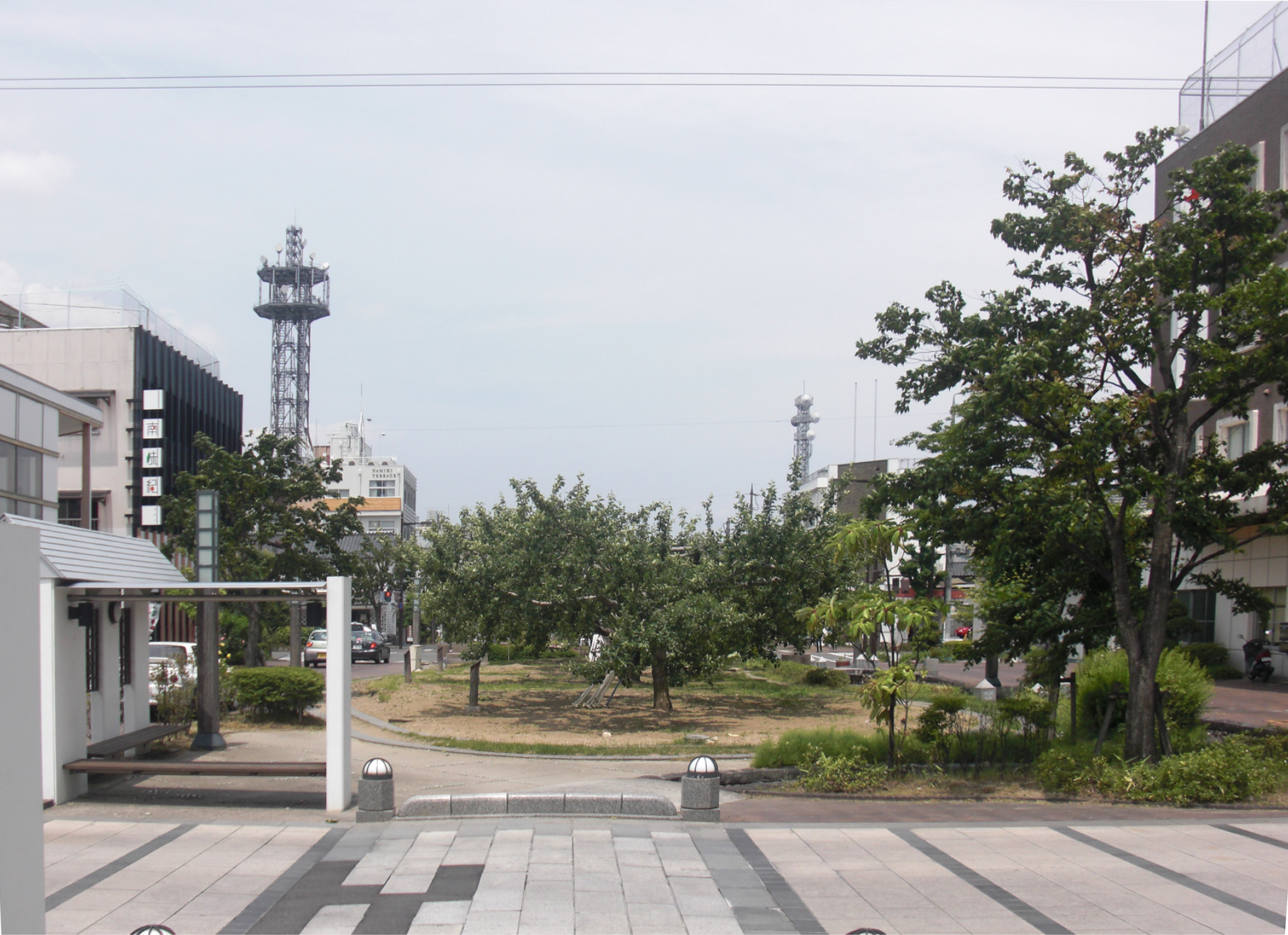 This is the Apple Trees Street in central Iida, Nagano, Japan.